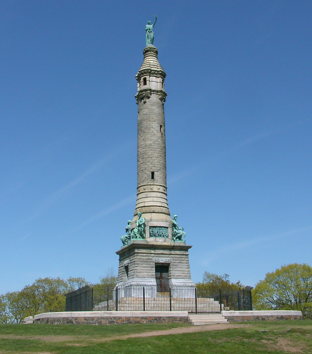 Picture taken by me in May 2005 and offered for public domain with no strings attached.